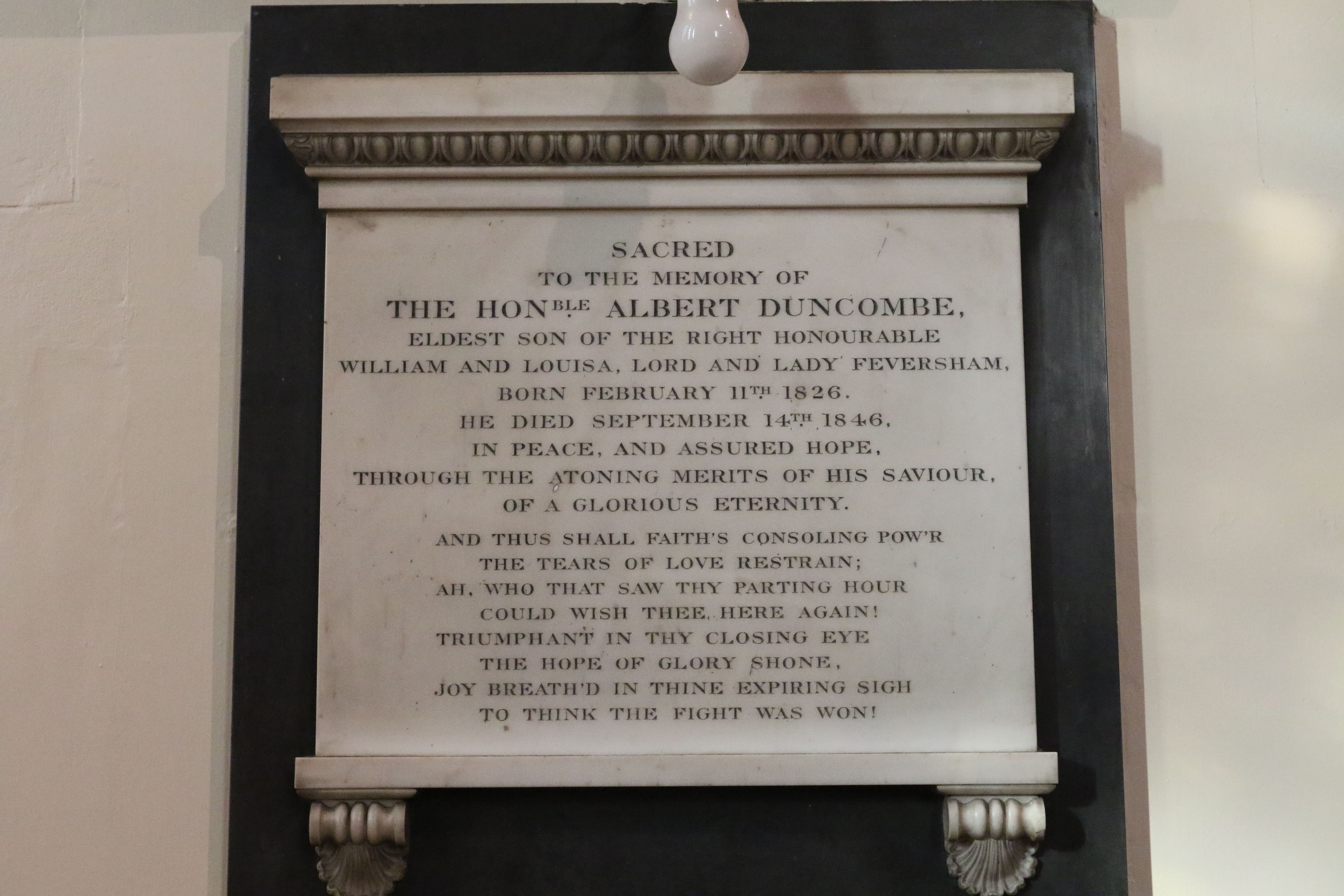 Eldest son of Rt. Hon. William and Louisa, Lord and Lady Feversham, born February 11th, 1926, died September 14th 1846.